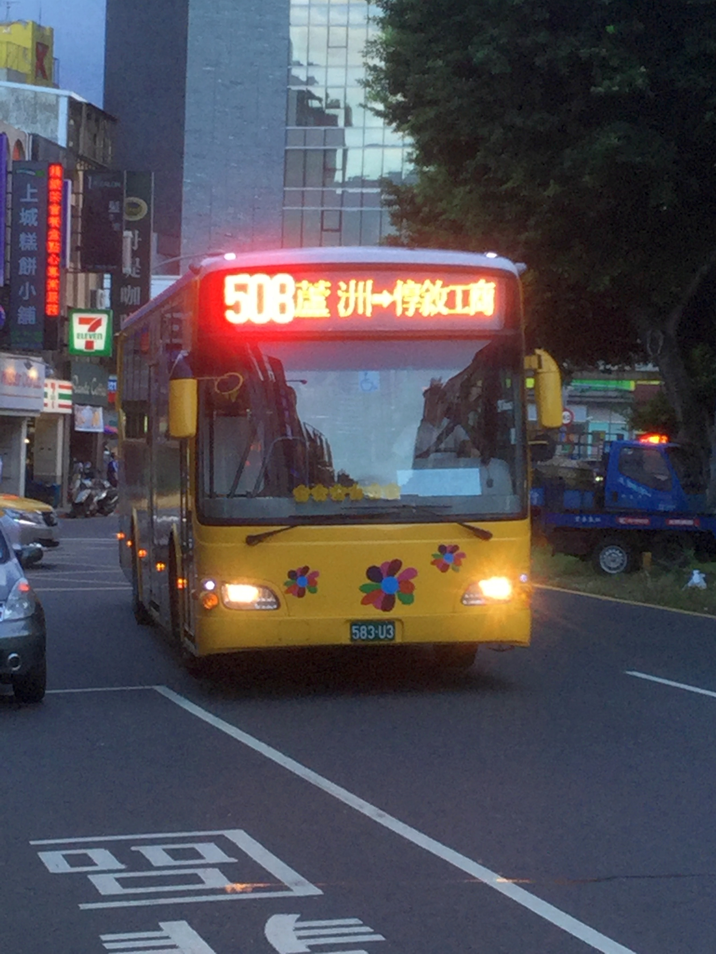 Metropolitan Transport 583-U3 in Section 2, Shipai Rd., Beitou District, Taipei City.